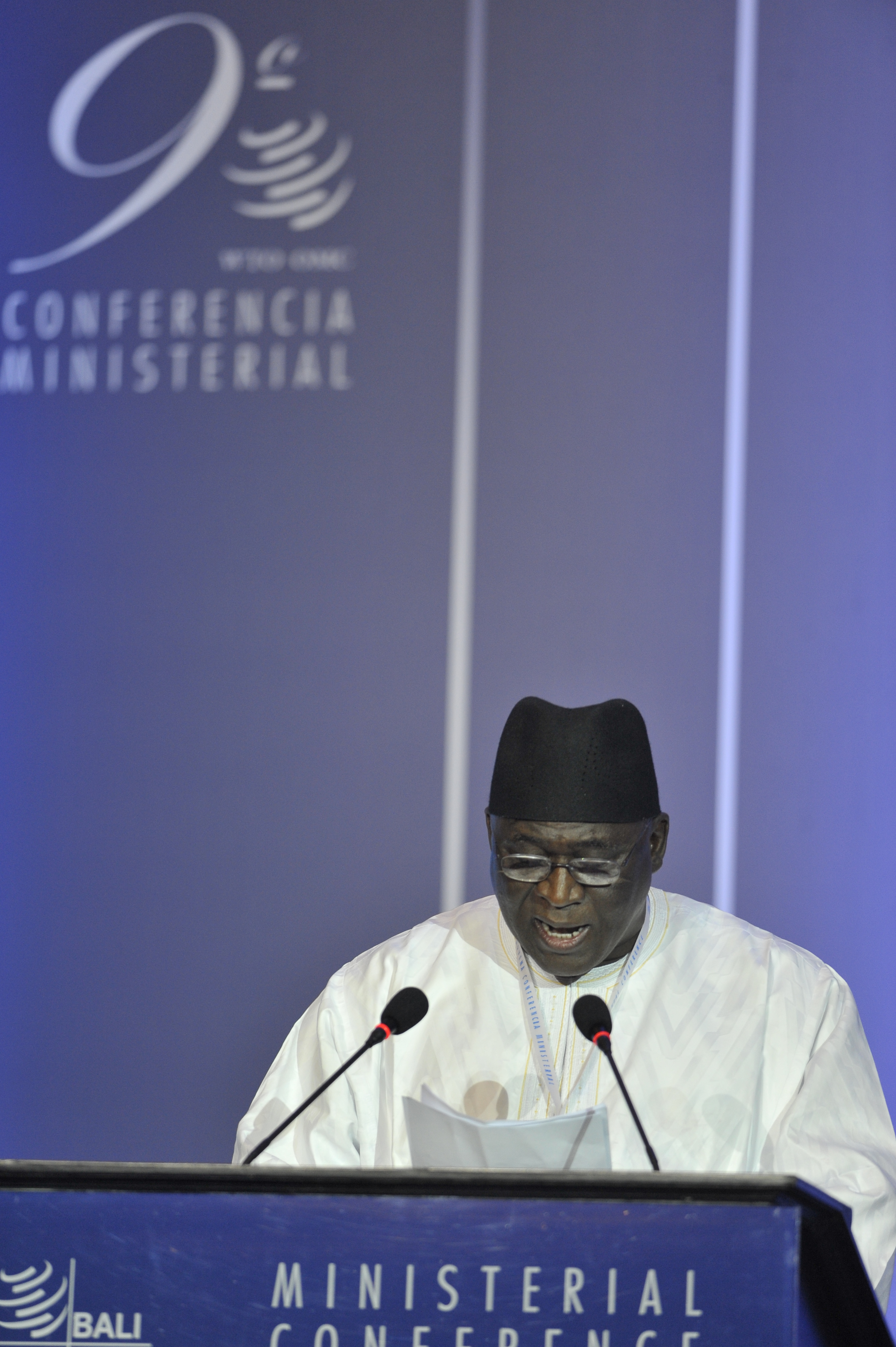 Modibo Keita at day 3 of the WTO's Ministerial Conference, Bali, 3 December 2013